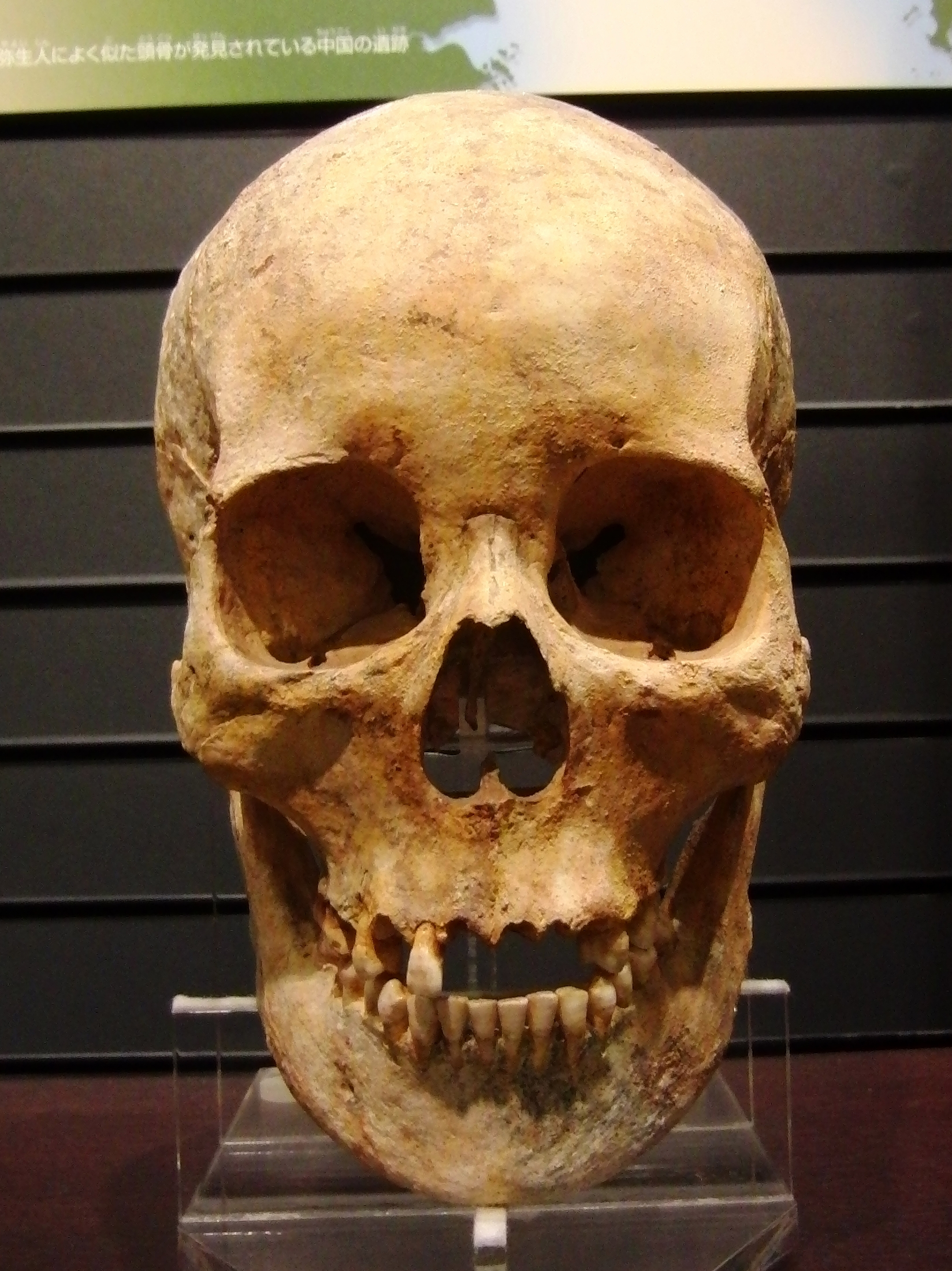 Skull of immigrant type Yayoi people (woman) from Asahi-kita ruins, Saga Prefecture, Japan. Replica. Exhibit in the National Museum of Nature and Science, Tokyo, Japan.